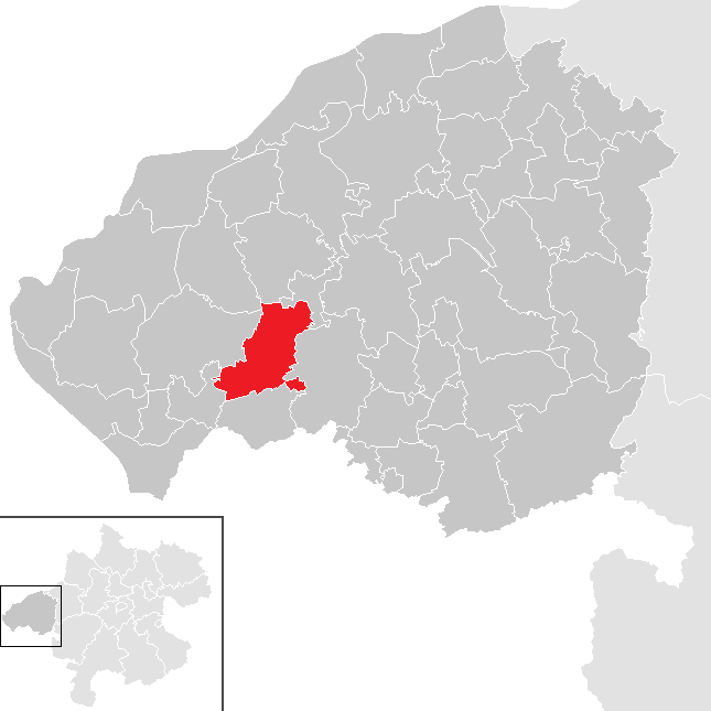 district Braunau am Inn